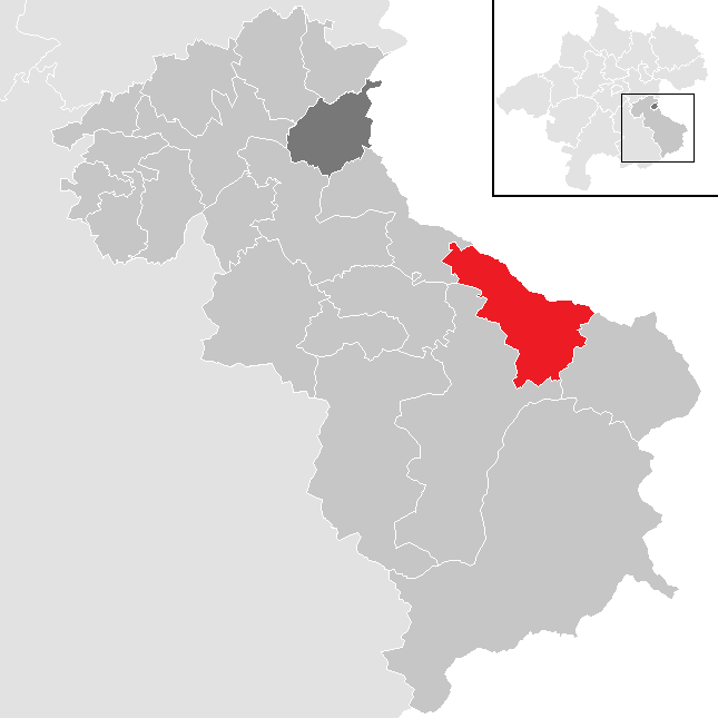 district Steyr-Land